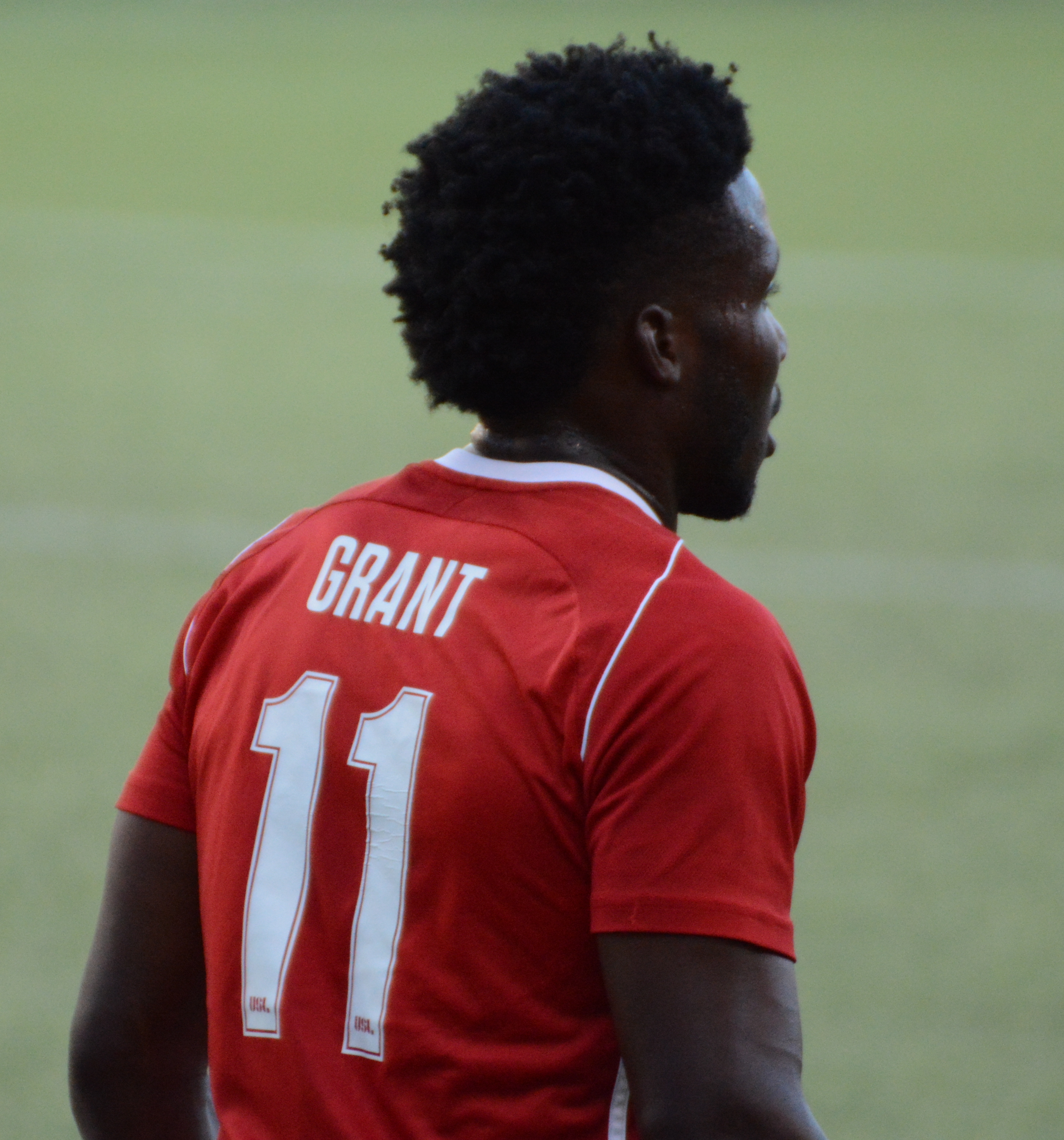 Taken during a USL regular season match between FC Cincinnati and Richmond Kickers at Nippert Stadium in Cincinnati, USA on July 9, 2017.